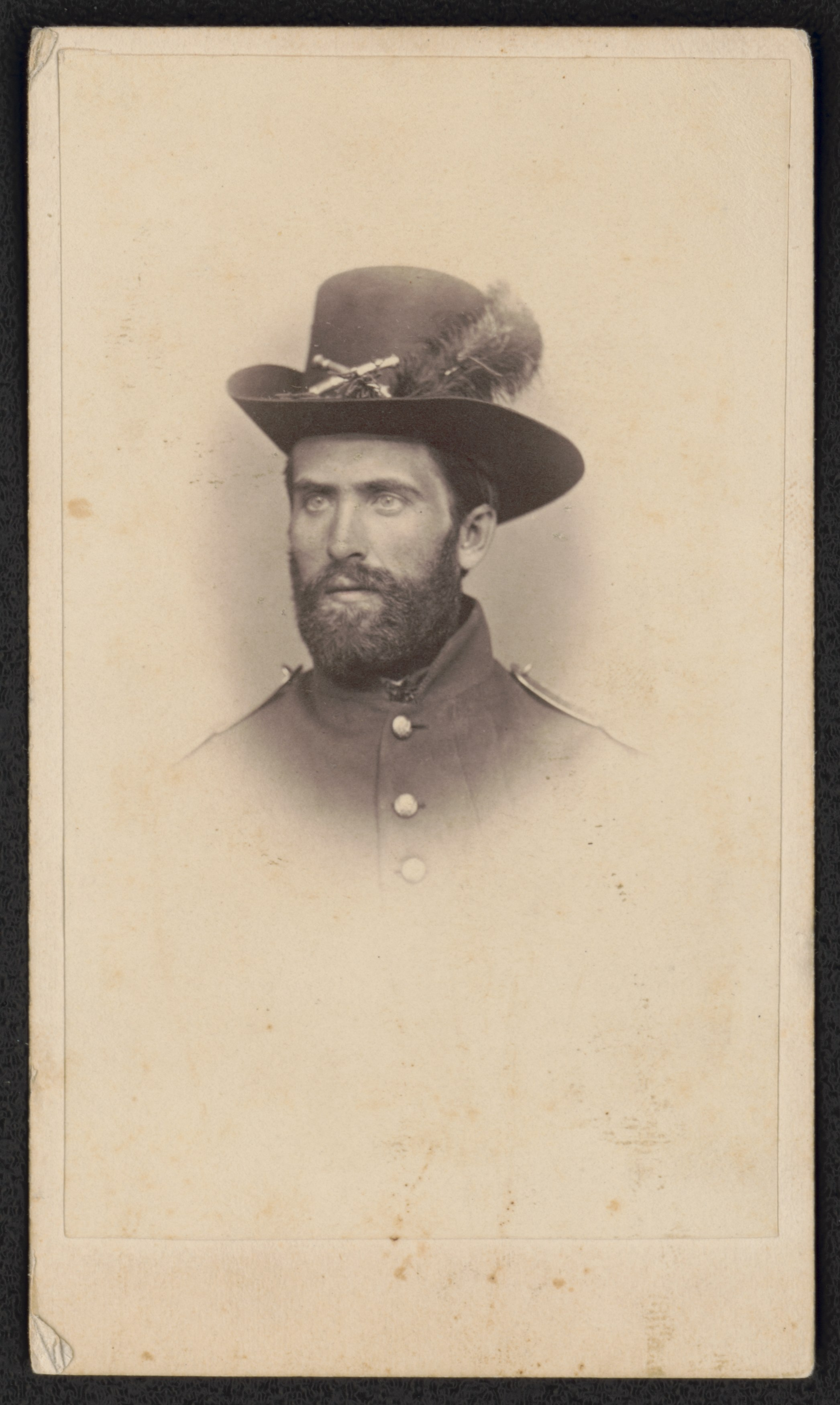 Title: Private Frank I. Snell of Co. E, 1st Massachusetts Heavy Artillery Battalion in uniform] / Clarkson, photographer, Cor. Market & High Sts., Salisbury, Mass Abstract/medium: 1 photograph : albumen print on card mount ; mount 11 x 6 cm (carte de visite format)